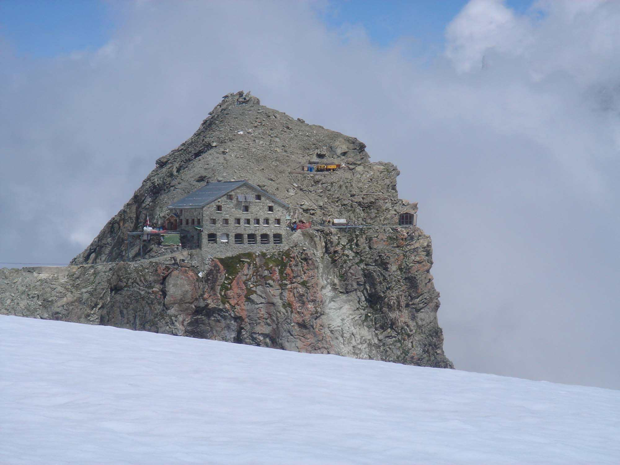 Cabane des Vignettes SAC